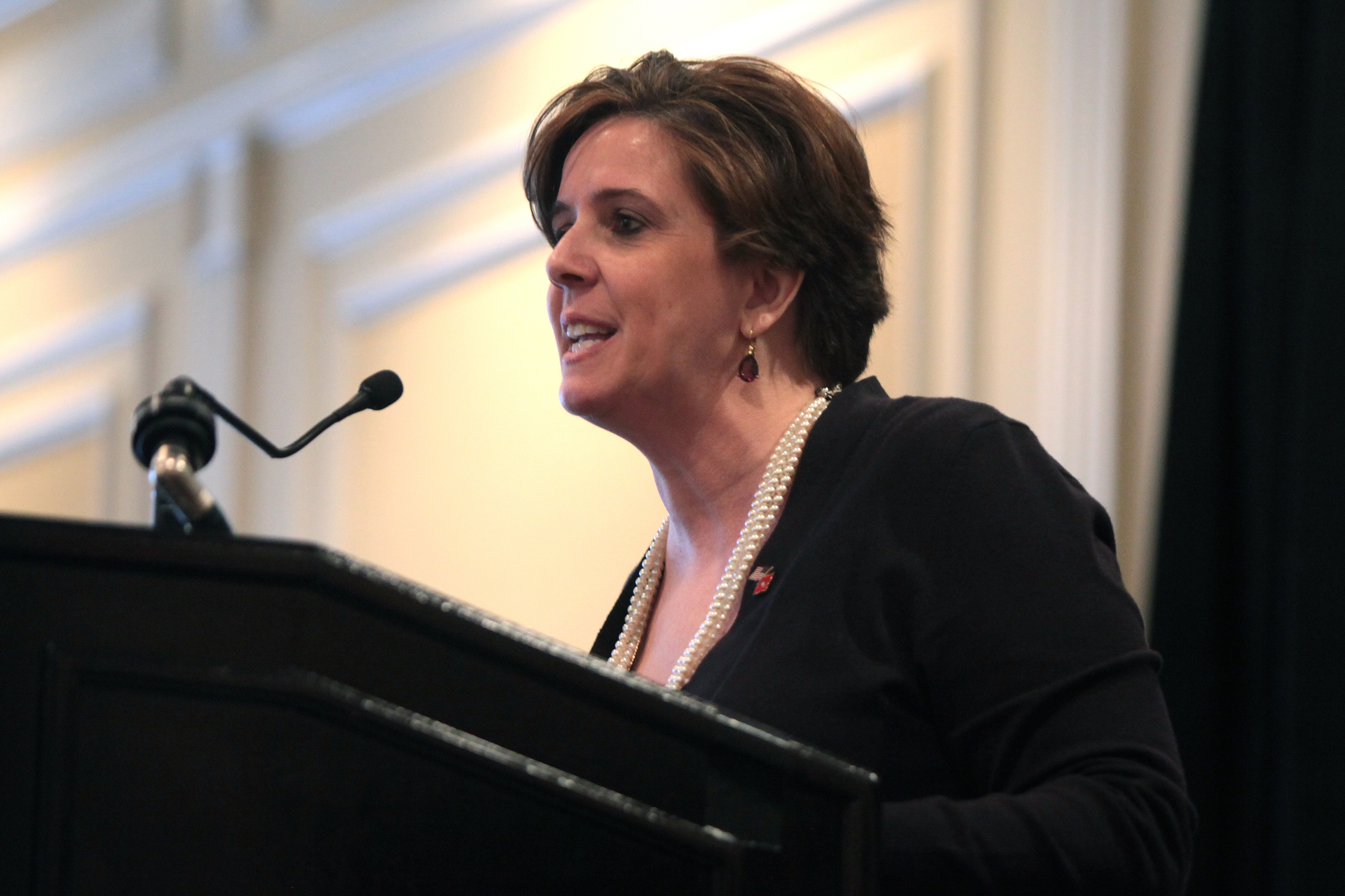 Jennifer Horn